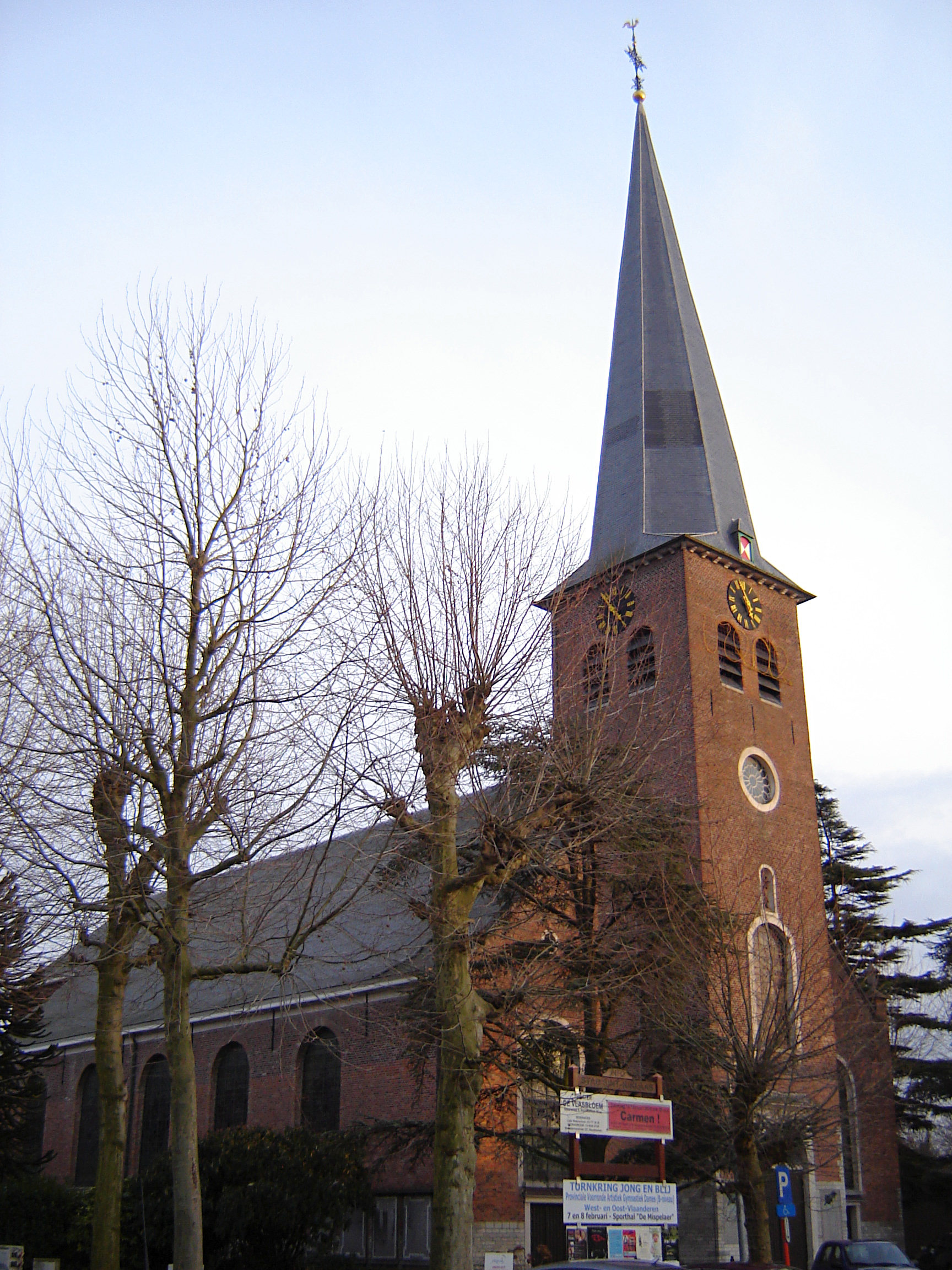 Church of Our Lady ten Bos in Nieuwkerken-Waas. Nieuwkerken-Waas, Sint-Niklaas, East Flanders, Belgium